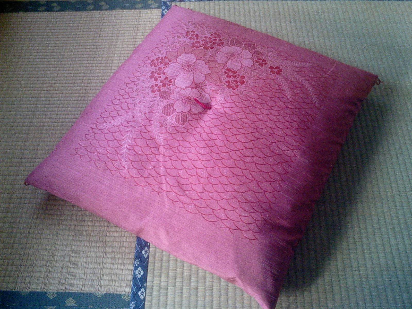 Zabuton is meaning of cushion.